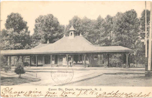 A postcard dating 1907 of the Essex Street Station in Hackensack, New Jersey.